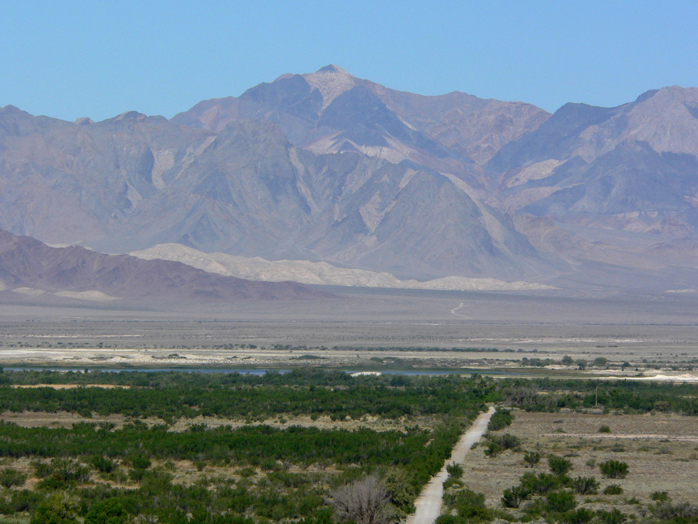 Pyramid Peak, Funeral Mountains, southern California, seen from Ash Meadows